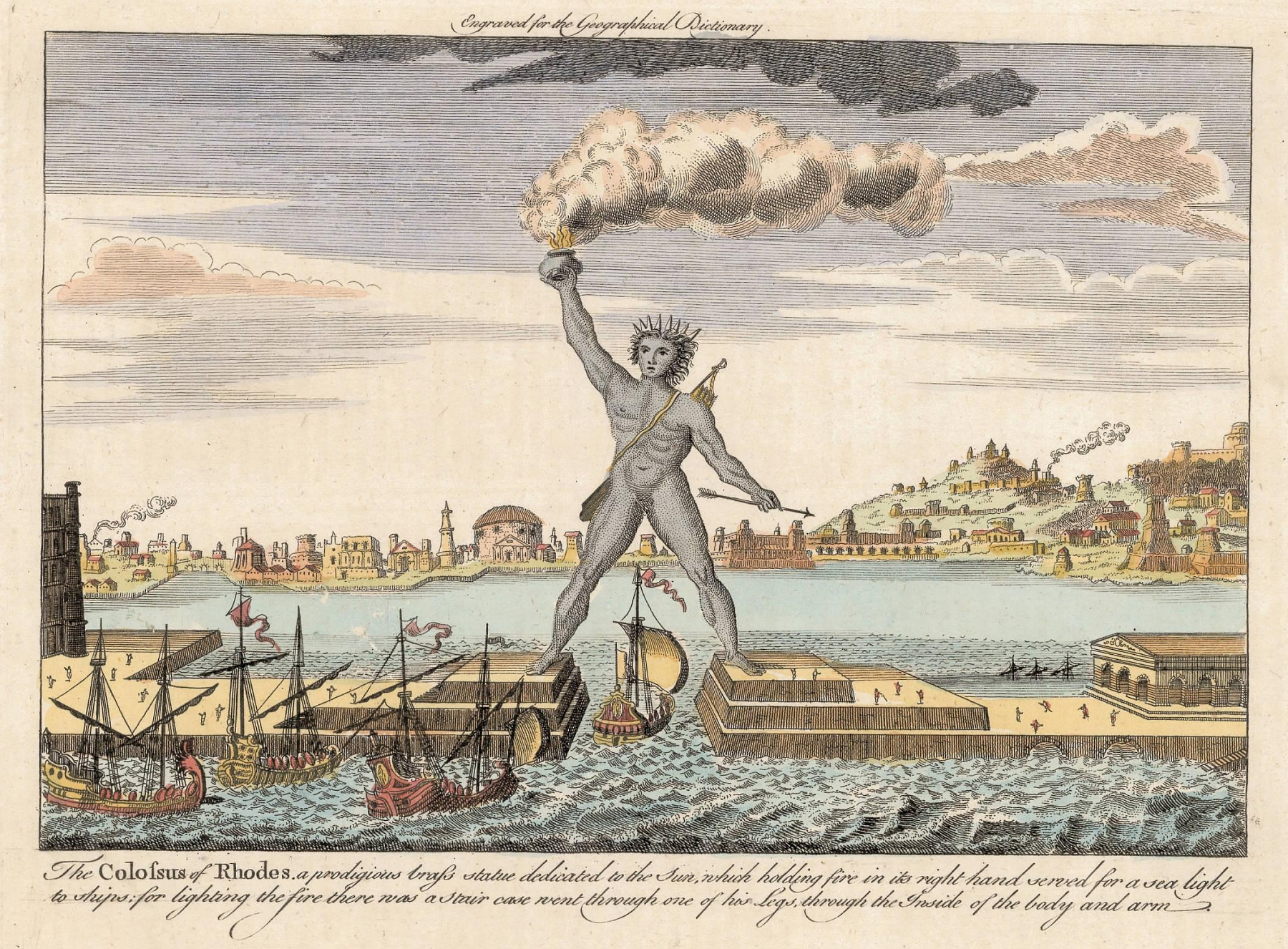 Colossus of Rhodes